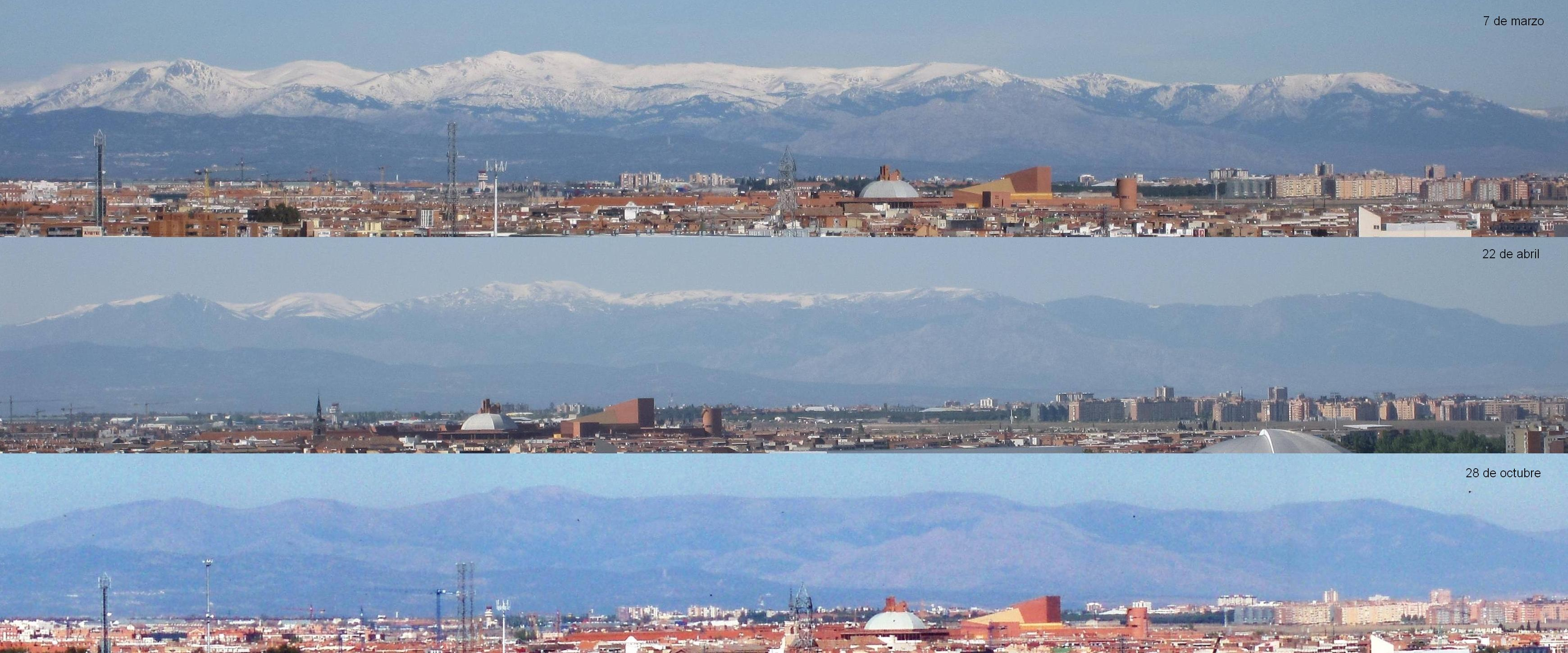 Guadarrama mountain range (central Spain) seen in three differents seasons: Winter, Spring and Autumn. The photographs are taken in Buenavista hill, situated 13 km to the South of Madrid.